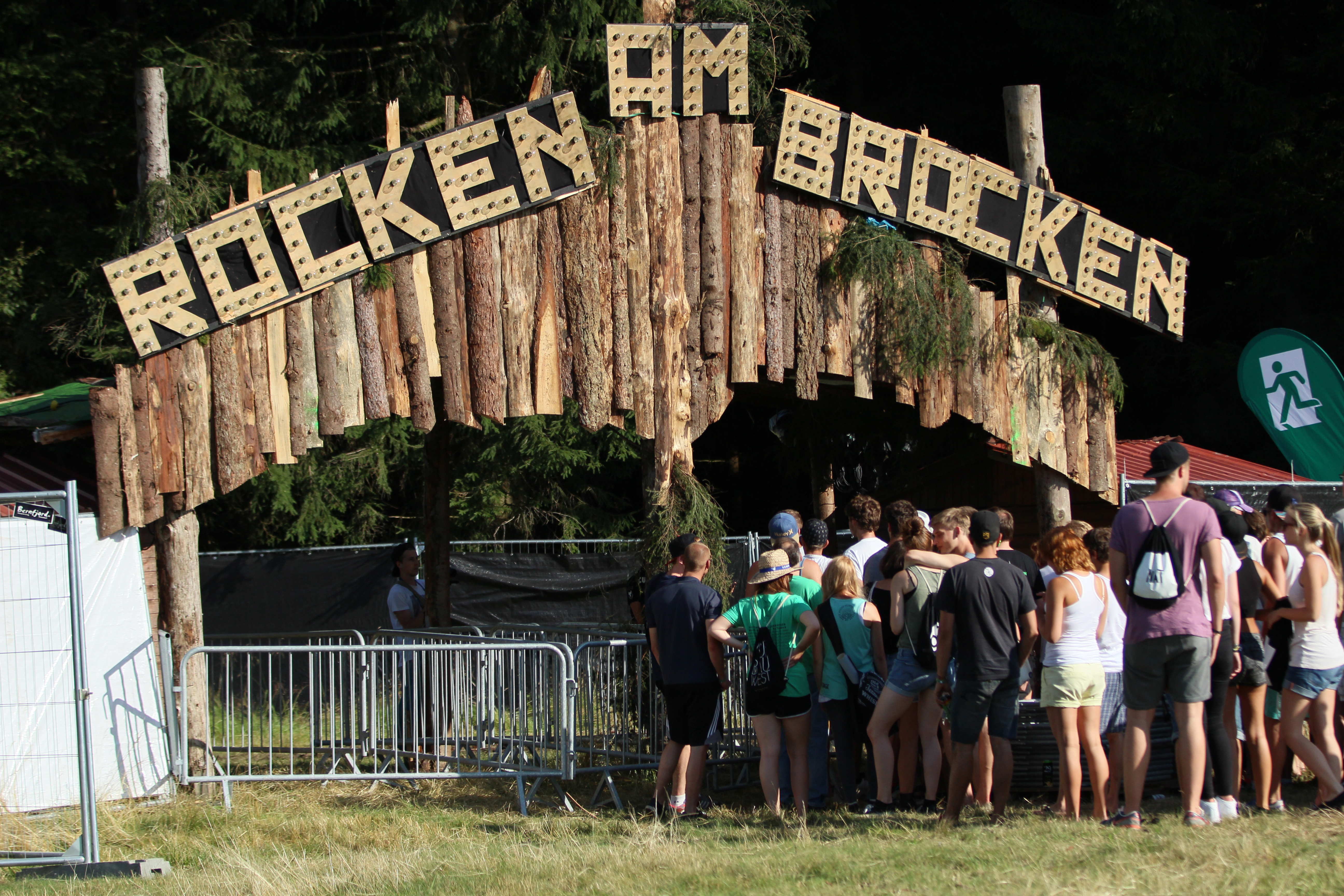 Impressions from the Rocken am Brocken Open Air 2014 in Elend/Germany